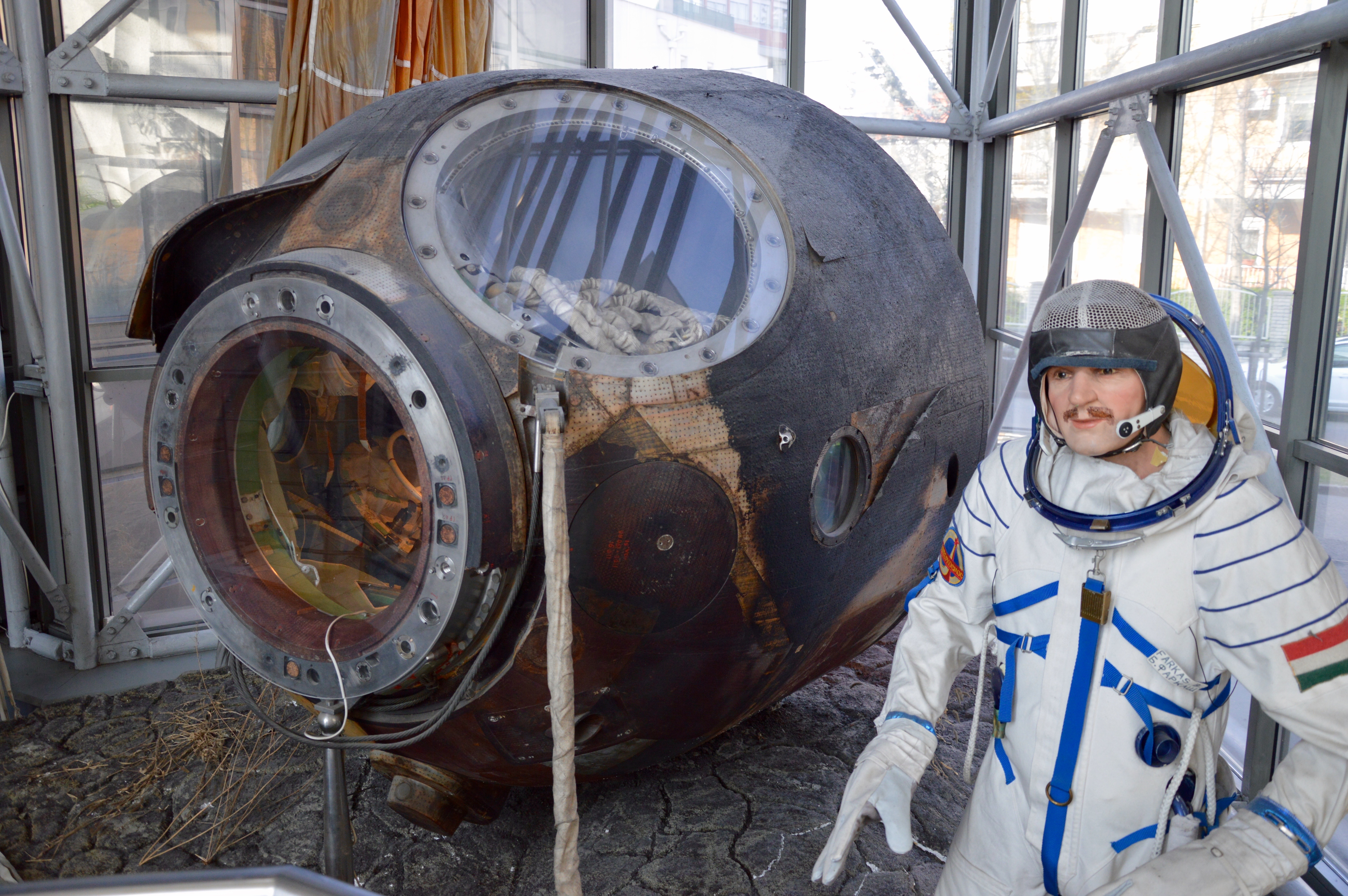 Reentry capsule of Soyuz-35 spacecraft and Farkas Bertalan's Sokol-K spacesuit on display at the Hungarian Technical and Transportation Museum